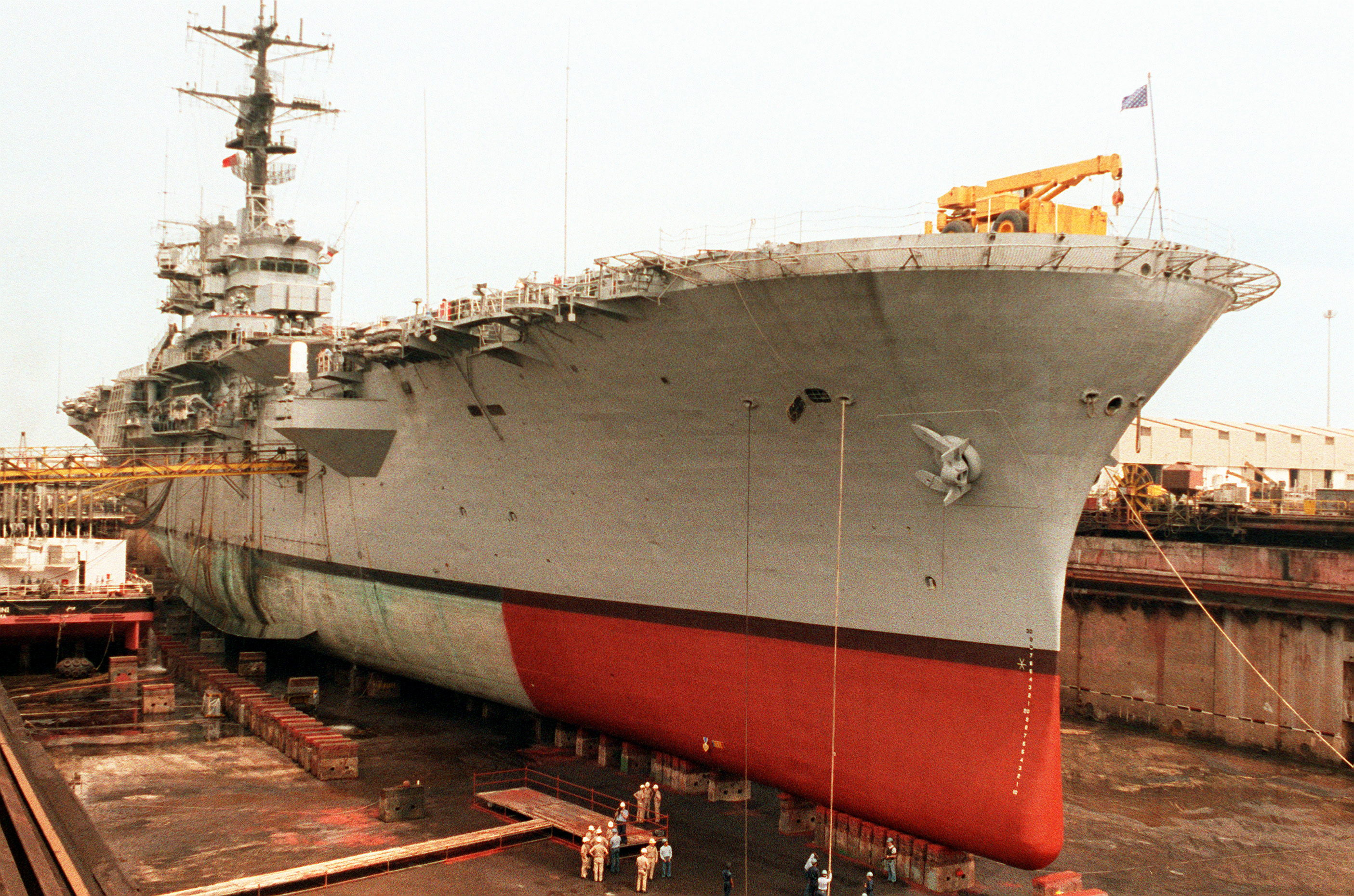 The amphibious assault ship USS TRIPOLI (LPH-10) sits in drydock following repair of a large hole 10 feet beneath its waterline. Four sailors were injured and the vessel severely damaged when an Iraqi mine exploded near the TRIPOLI on February 18 as helicopters from the ship conducted minehunting operations in the Persian Gulf during Operation Desert Storm.